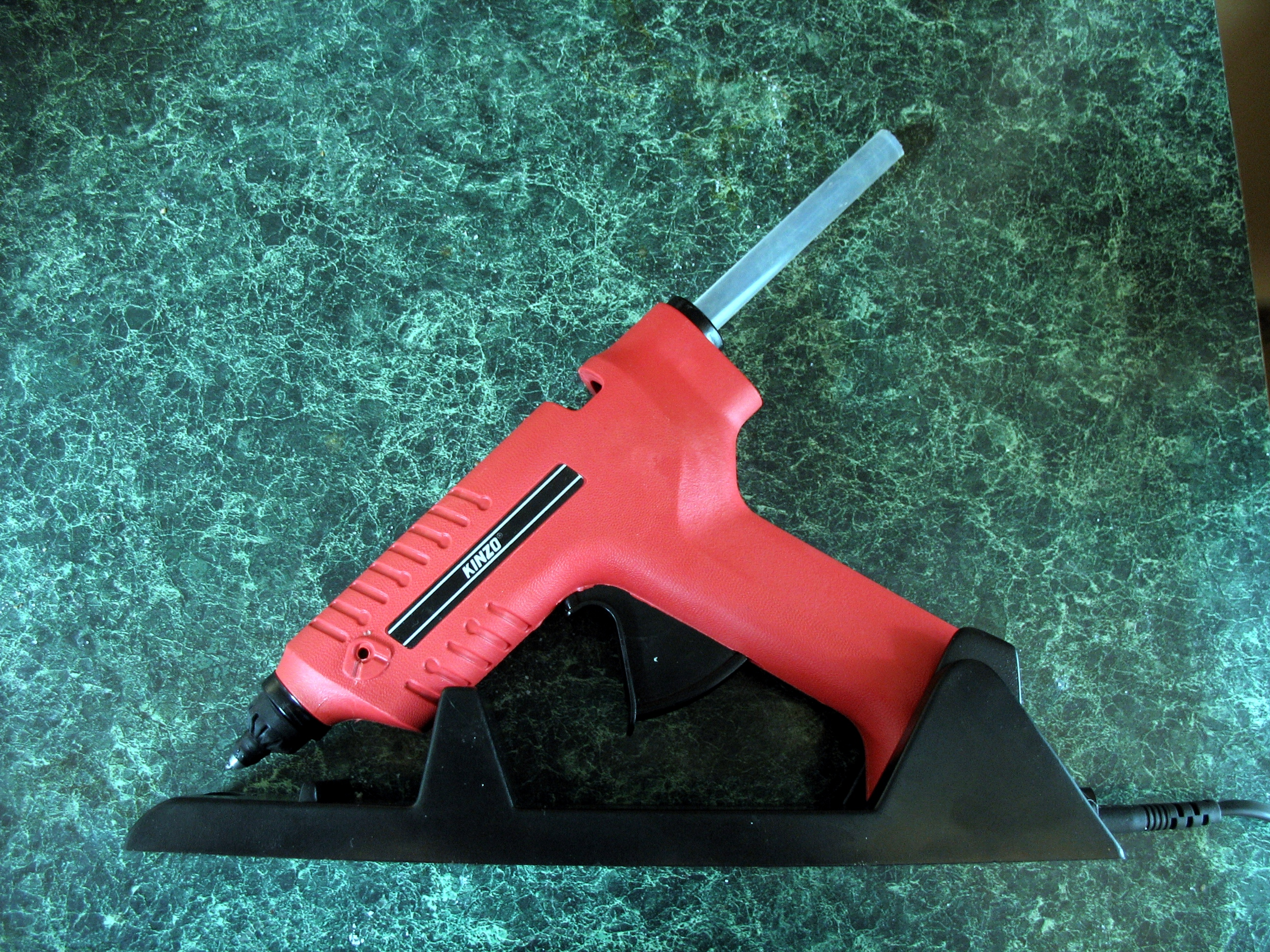 Kinzo glue gun